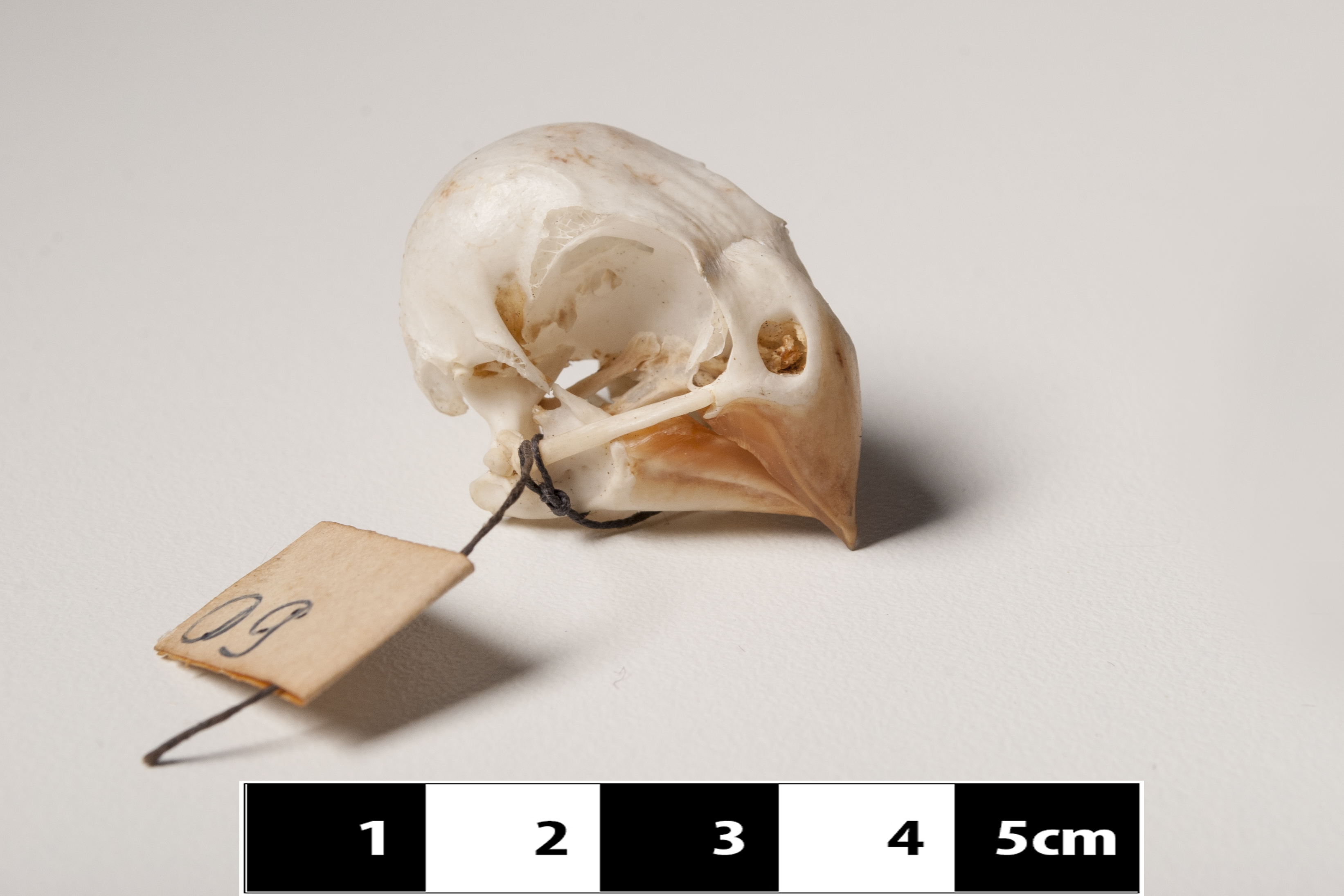 Great-Billed Seed-Finch skull “Sporophila maximiliani”. Technique of bone maceration on display at the Museum of Veterinary Anatomy, FMVZ USP.